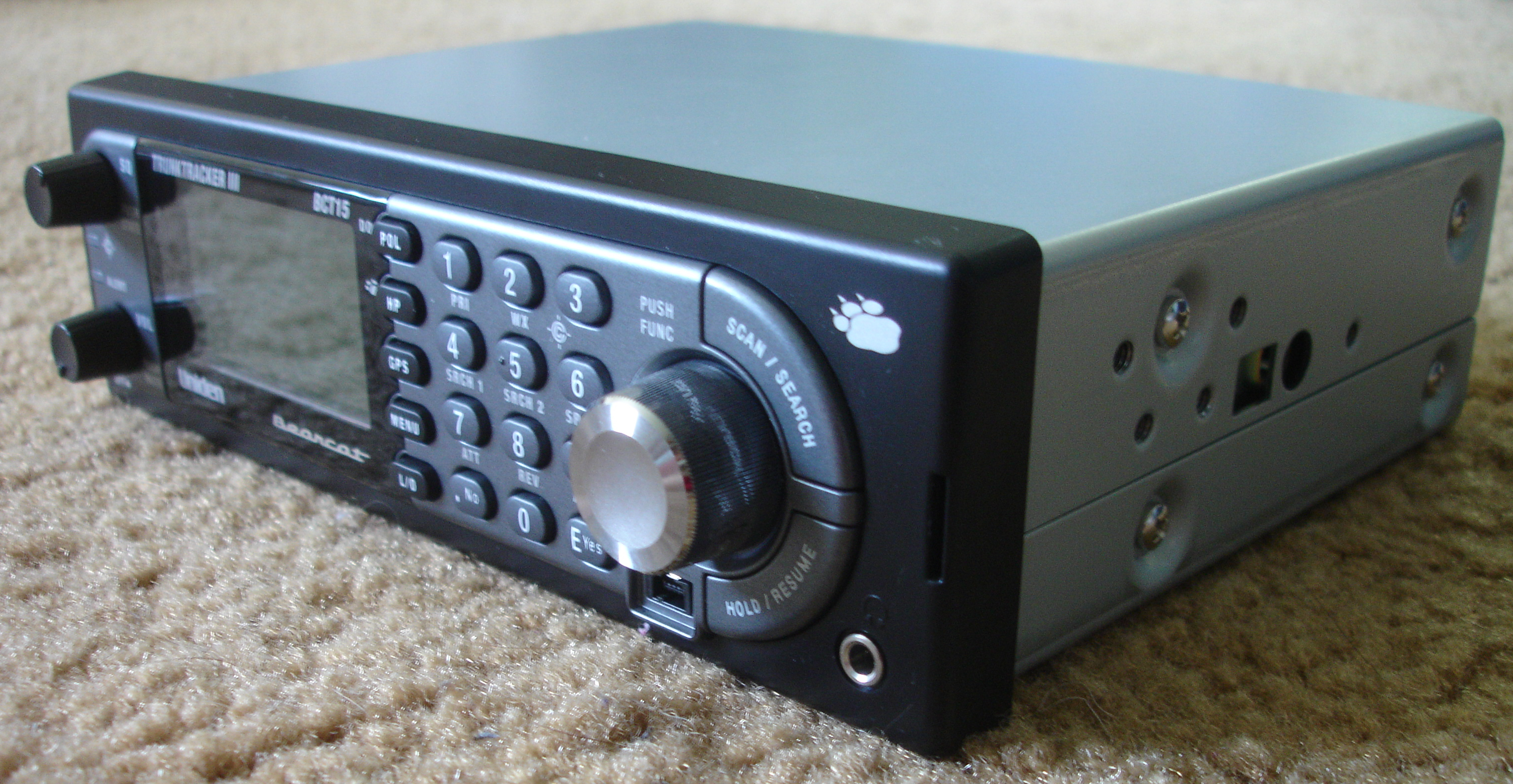 Uniden BCT-15 scanner with its case sleeve removed, revealing in-dash vehicle ISO 7736 mounts for brackets in single DIN installation.